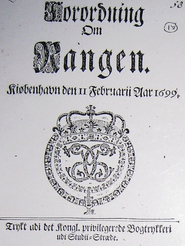 Copy of the front/the title page of the Decree on the Order of Precedence of 1699 (Forordning om rangen av 1699). Denmark and Norway. Date: 11 February 1699. Norsk (bokmål): Kopi av forsiden/tittelbladet på Forordning om rangen av 1699. Rangforordning. Dato: 11. februar 1699.